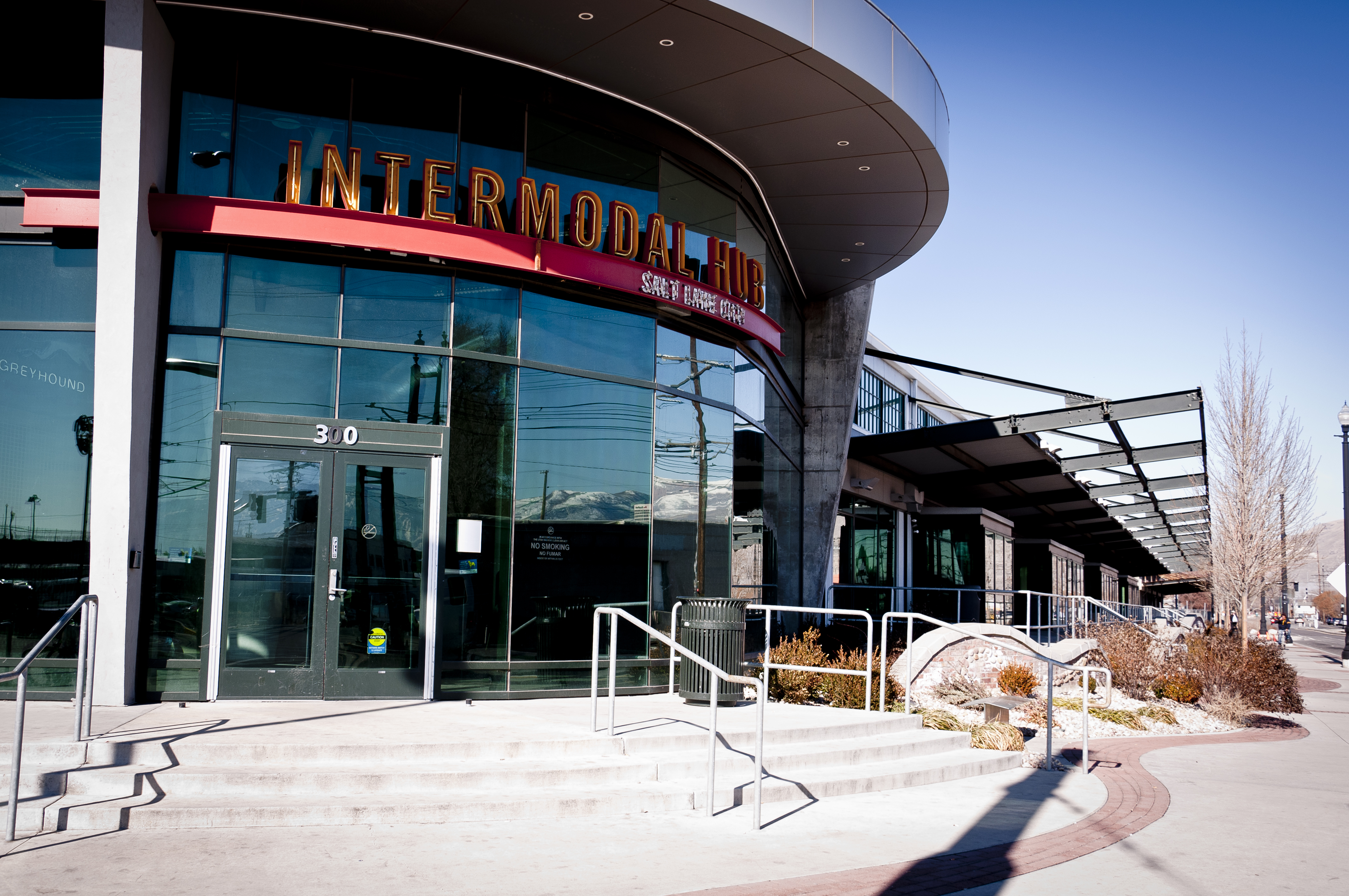 Salt Lake Central Intermodal Hub in downtown Salt Lake City.